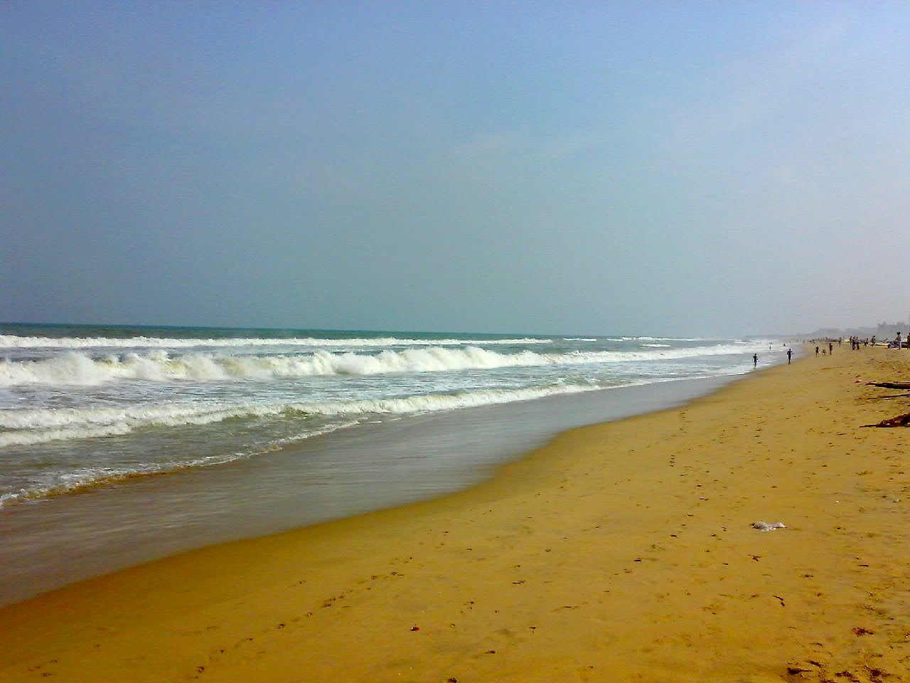 Marina beach in Chennai